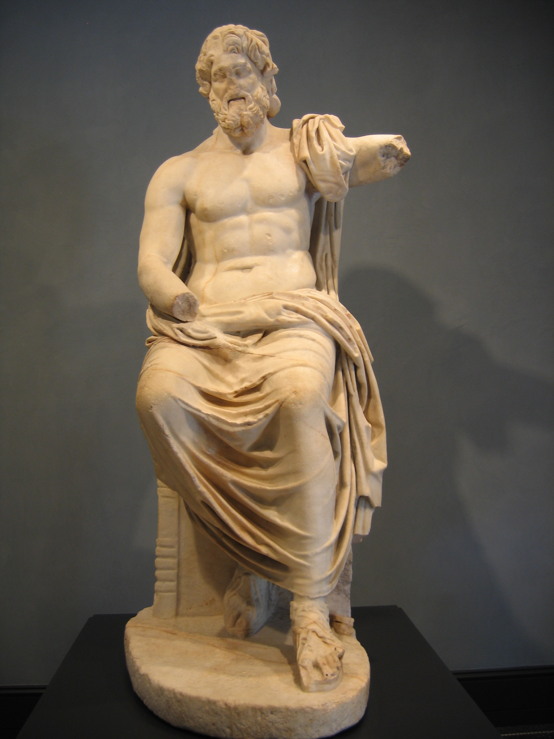 Statue of Zeus, Getty Museum, Malibu California